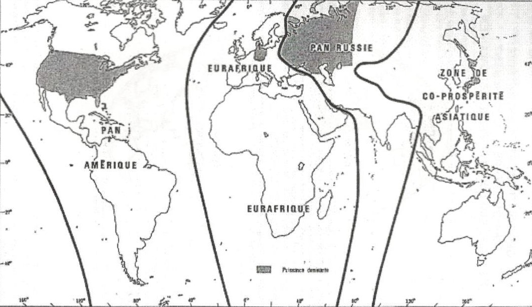 Geopolitical conceptualization of the world according to Pan-Region's Doctrine of Carl Haushofer